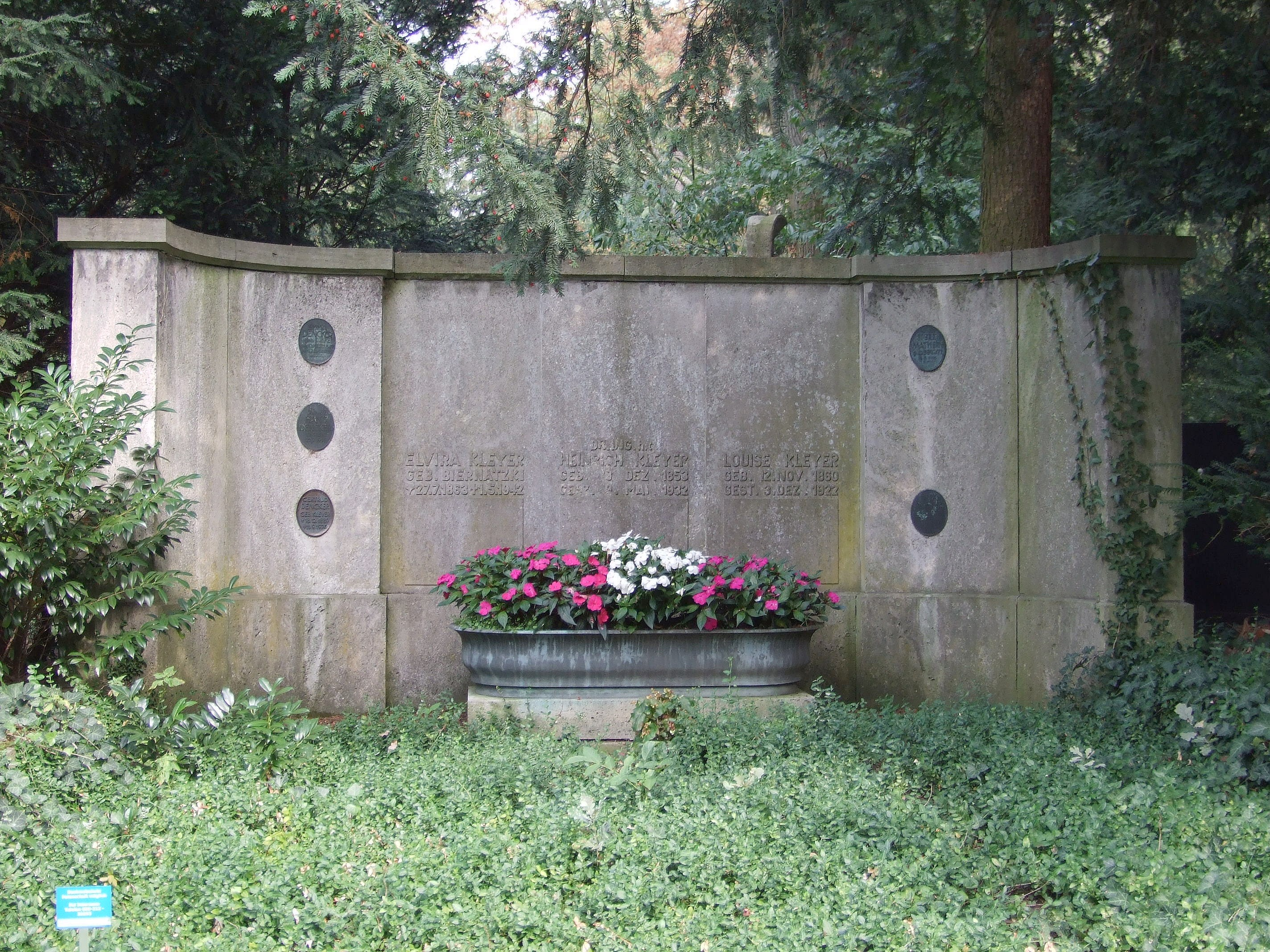 The Kleyer family grave, Hauptfriedhof, Frankfurt am Main, Germany